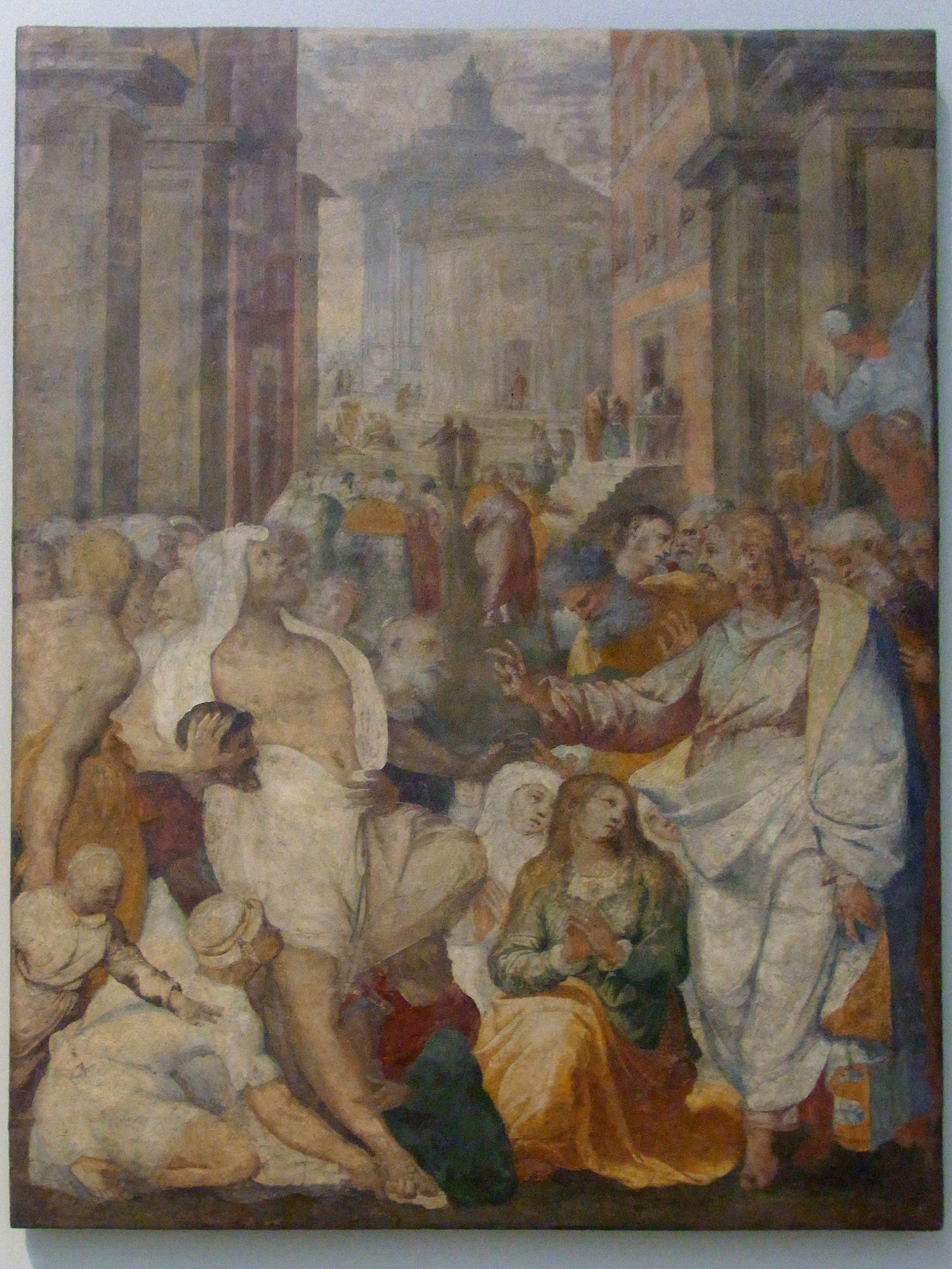 Perino del Vaga: The Raising of Lazarus(Fresco); from the MassimiChapel in the church of Santa Trinità dei Monti, Rome, Italy (painted); Fresco transferred to canvas; Height: 163.6 cm, Width: 114.9 cm, Depth: 4.8 cm; Given by J. F. Austen; Museum no. 362-1876; description